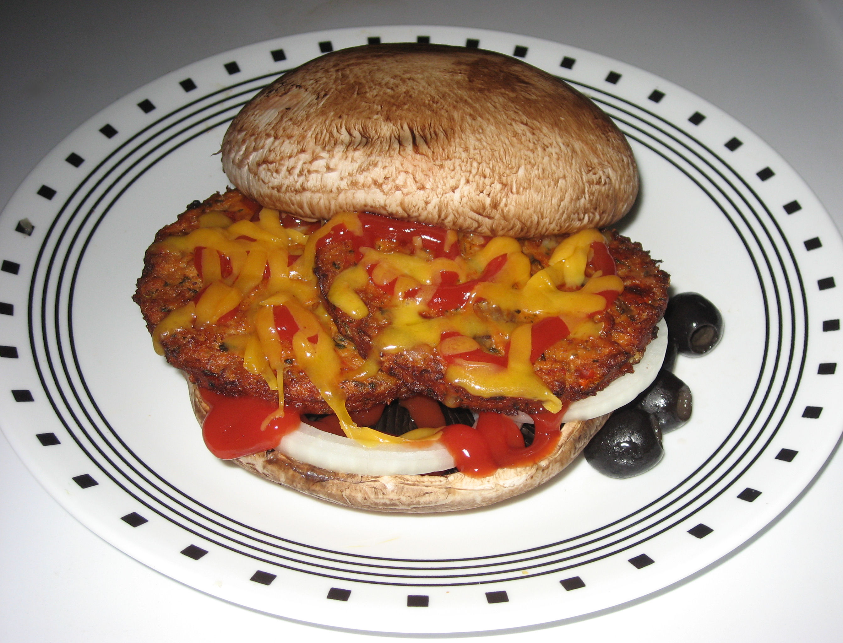 This was dinner last night: Morningstar Farms Tomato&Basil Pizza Veggie Burgers garnished with onion, ketchup and low-fat cheddar. The "bun" is two portobello mushroom crowns, lightly steamed.